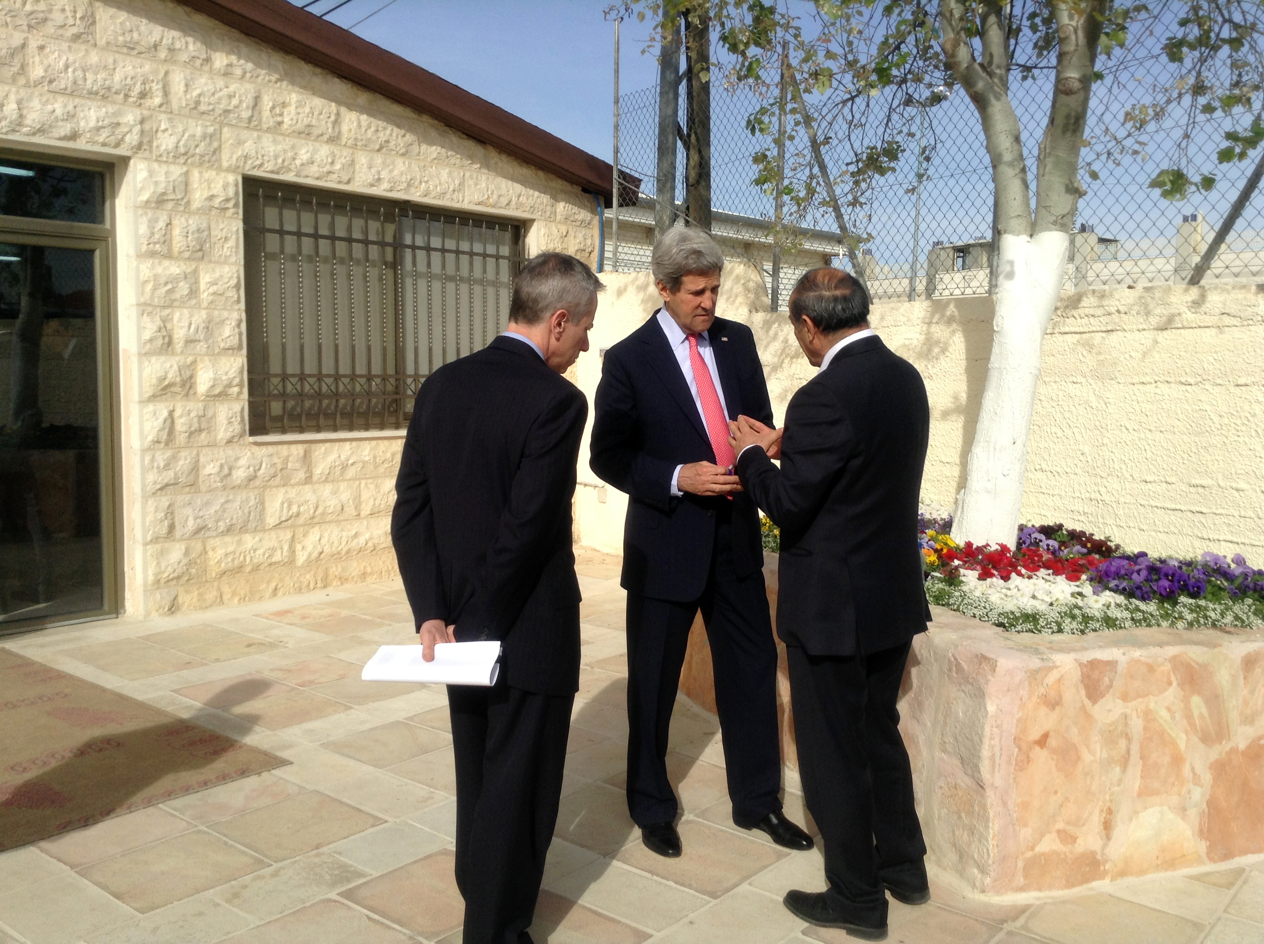 U.S. Secretary of State John Kerry speaks with U.S. Consul General Michael Ratney and Al Bireh Youth Foundation Chairman of the Board Dr. Samih Al Abed at the youth center in the West Bank, March 21, 2013. [State Department photo/ Public Domain]